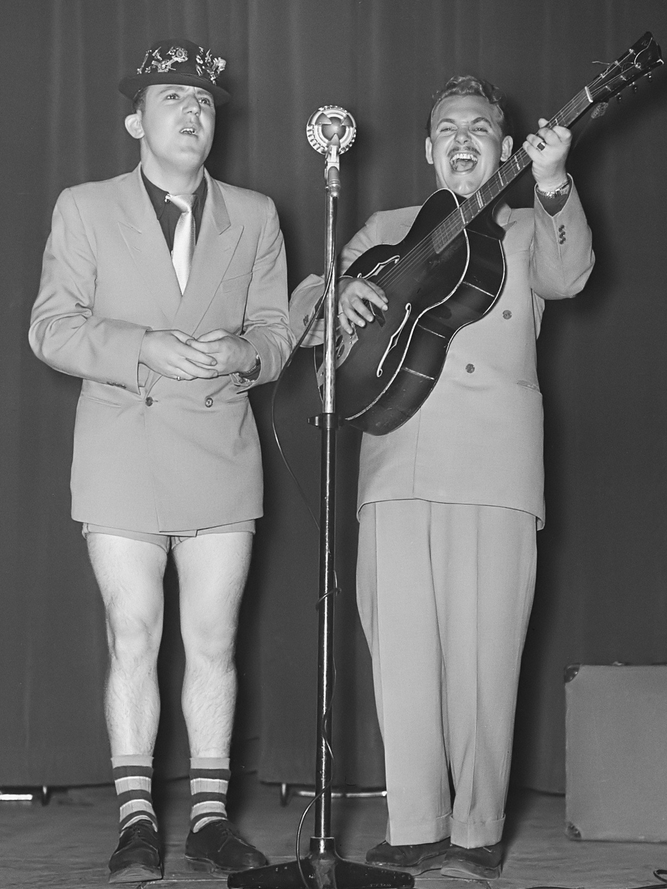 Ontvangst Johnny Jordaan, georganiseerd door grammofoonplatenzaak 'De Draaitafel' van de Lindengracht in het kader van het Jordaan Festival 15 september 1955